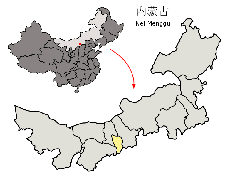 Location of Hohhot Prefecture (yellow) within Inner Mongolia Autonomous Region of China Map drawn in november 2007 using various sources, mainly : Inner Mongolia Autonomous Region administrative regions GIS data: 1:1M, County level, 1990 Inner Mongolia Counties map from